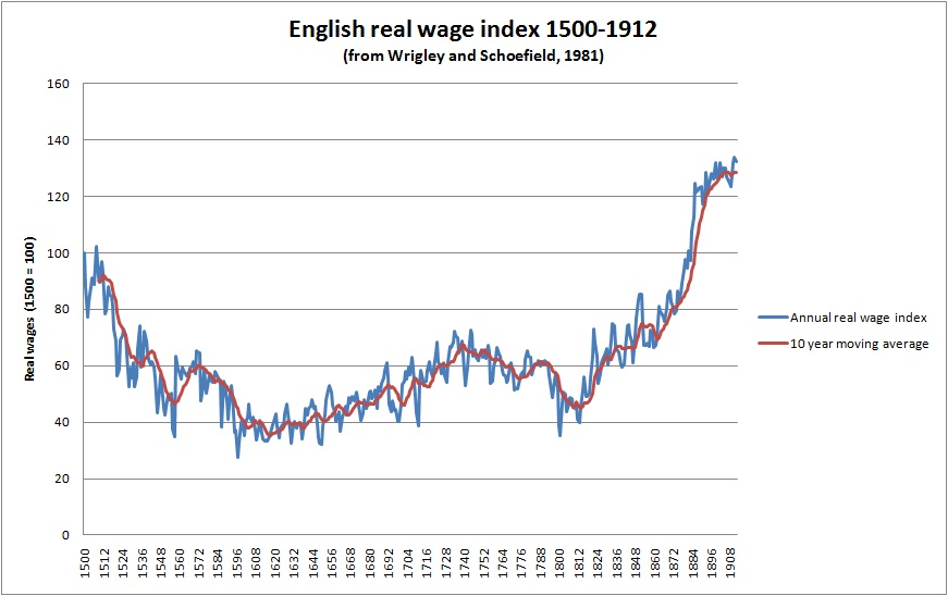 A real wages index for England 1500 to 1912 based on data from Wrigley and Schofield, 1981, Harvard Univ. Press. Wrigley and Schofield in turn based their estimates on work by Phelps Brown and Hopkins, 1955 and 1956